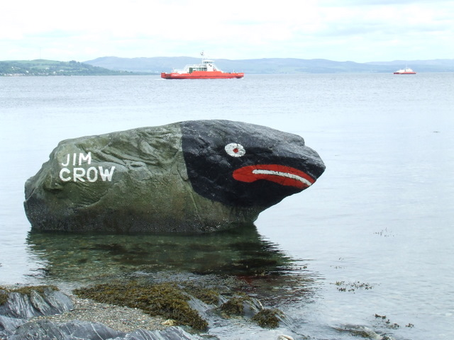 Jim Crow A painted boulder, standing around six feet tall, on the beach between Hunter's Quay and Kirn.